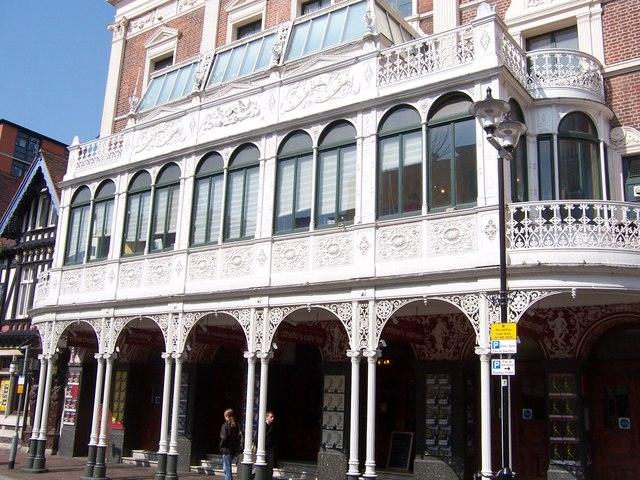 Theatre Royal - Portsmouth Nicely refurbished facade of The Theatre Royal, Portsmouth.